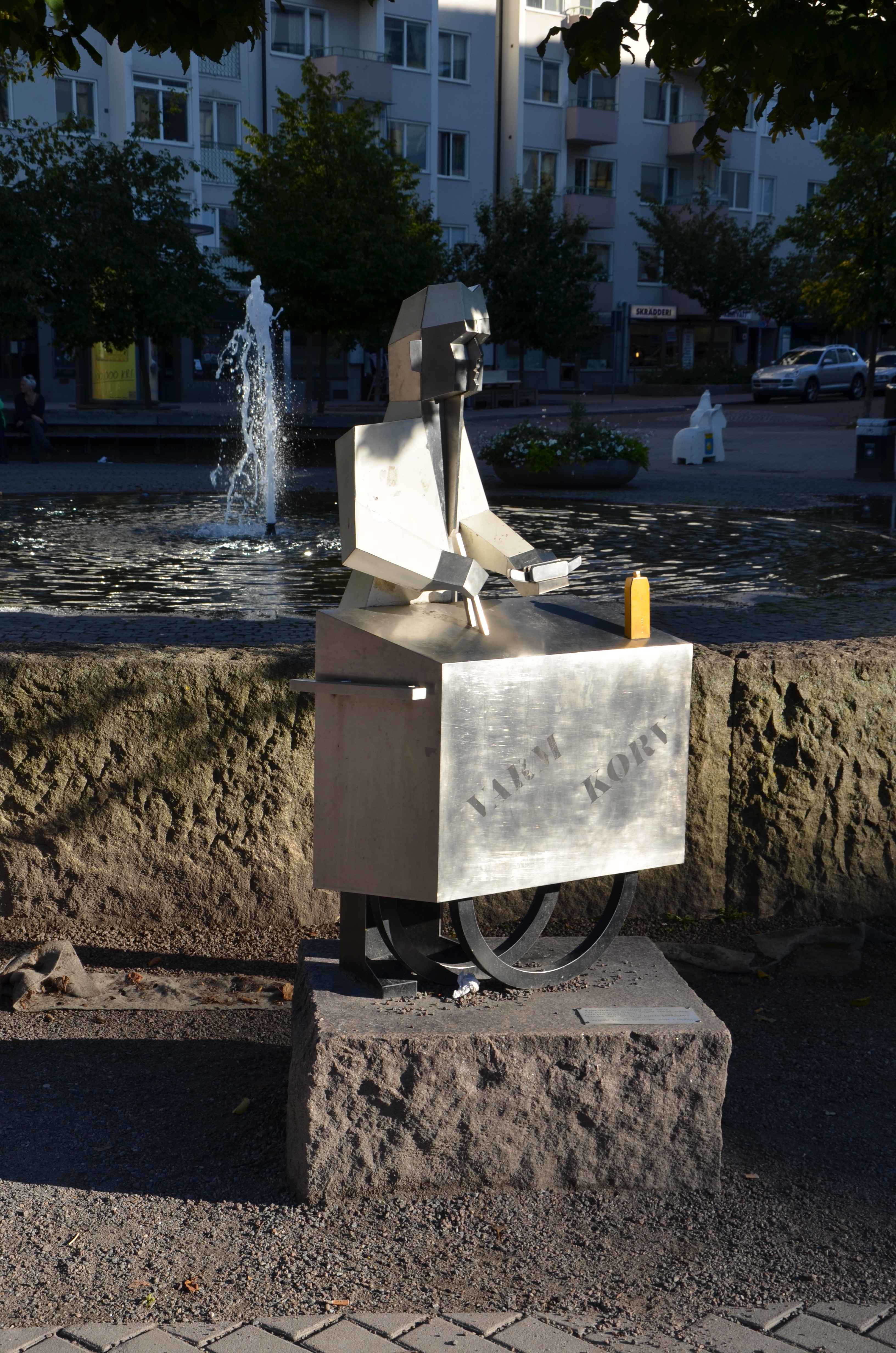 Thomas Qvarsebos Korv-Ingvar, busstorget vid Solna centrum, 2001